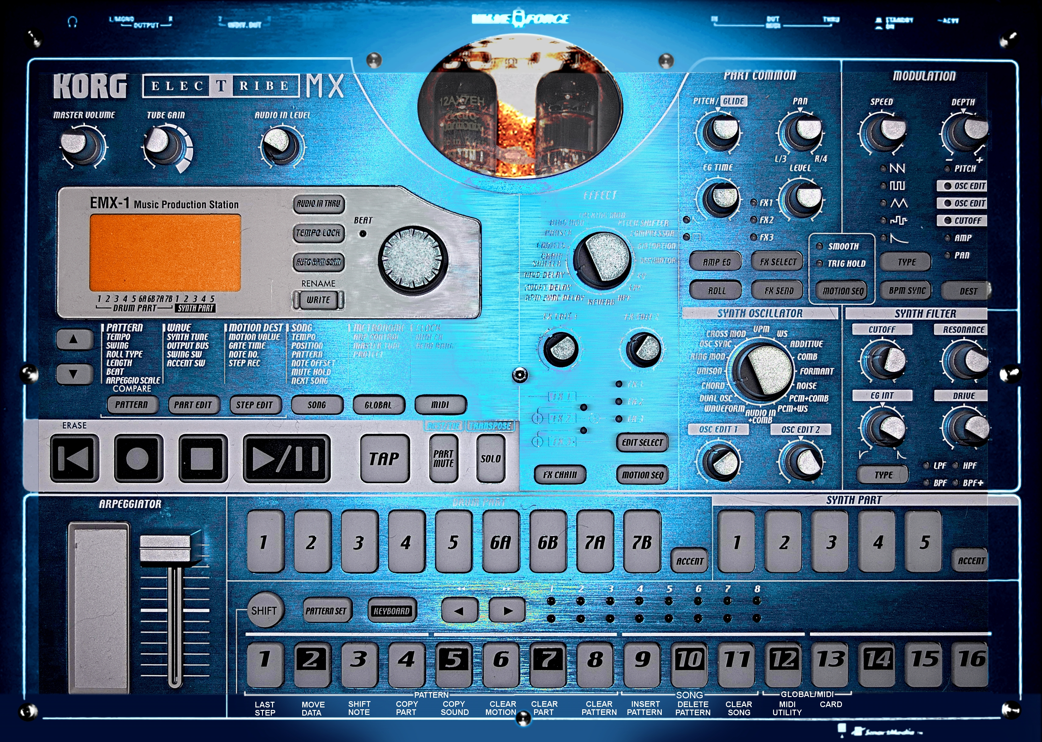 KORG Electribe MX (EMX-1) Selling this old friend to pay for recent gear purchases. Let me know if you're interested.